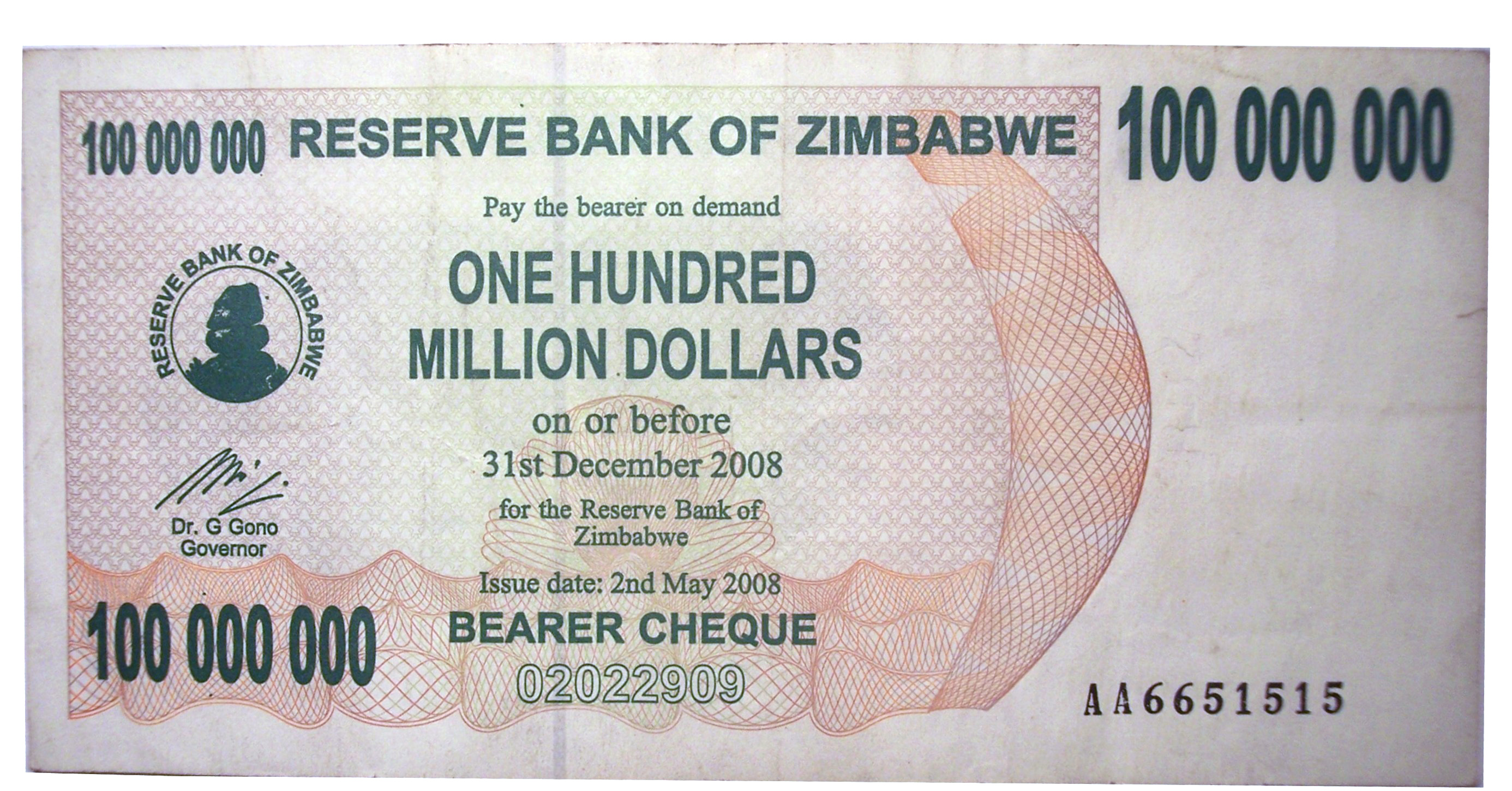 100 million dollar note after operation Sunrise. Issued 2nd May 2008.